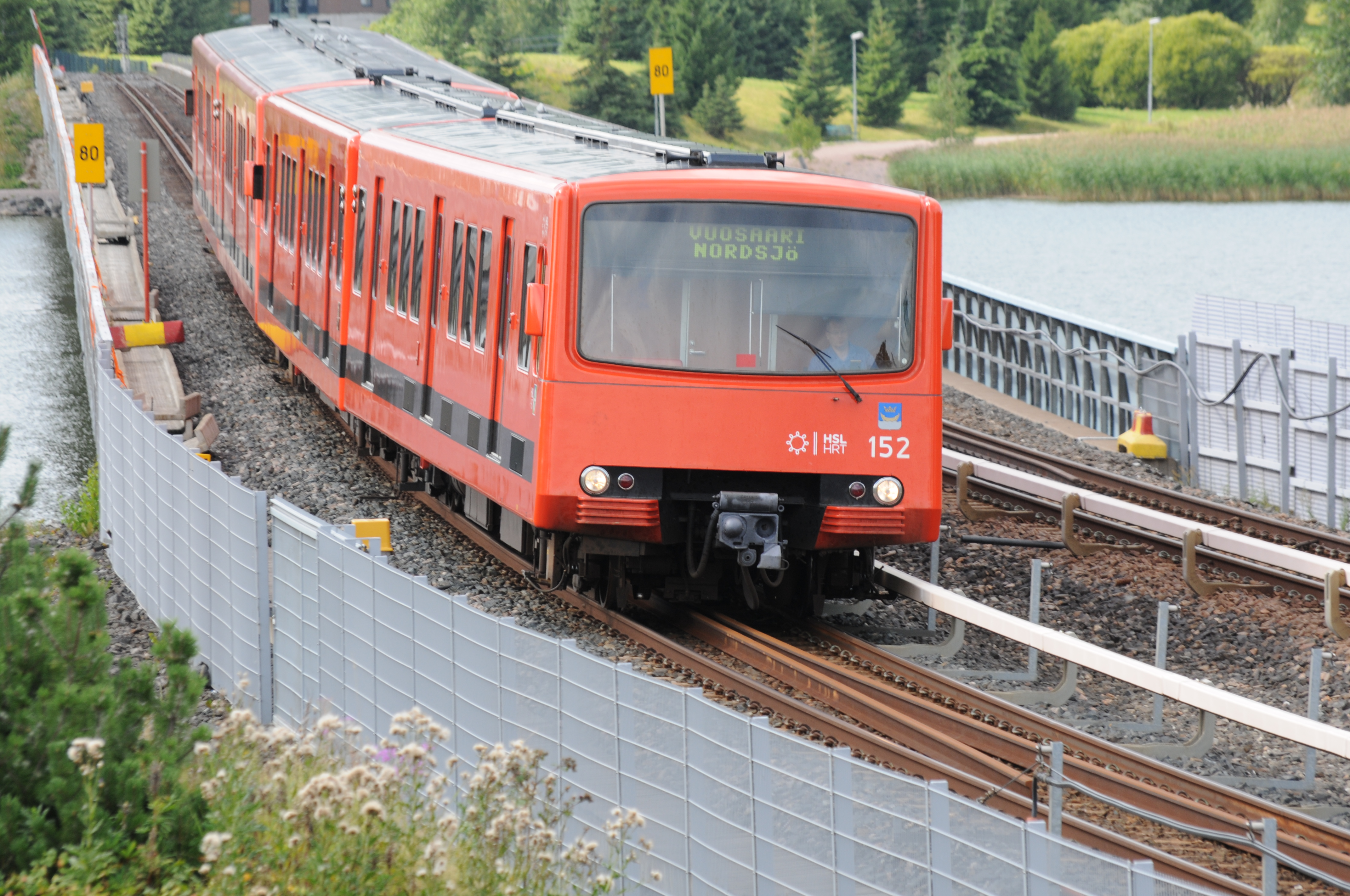 Bilderserie mit Dauerauslöser oder manuell - Grundmaterial für Kurse auf Wikiversity This file is used in a Wikiversity project or course. Please don't change it before you inform the author.